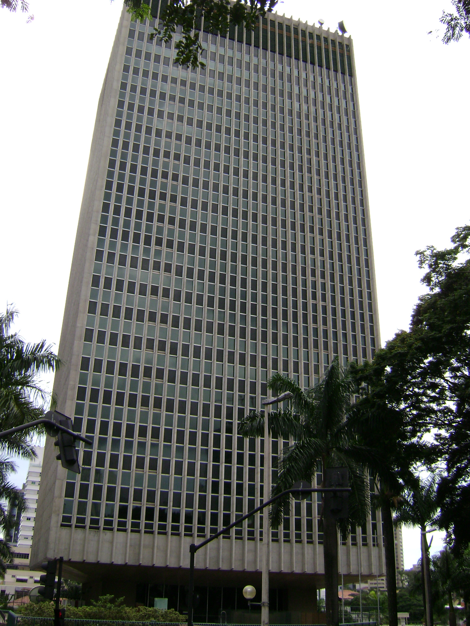 Prédio da Cemig (edifício Júlio Soares), na Avenida Barbacena, em Belo Horizonte. Obra iniciada em 1975, sendo concluída em 1983.